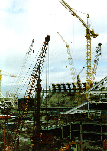 Construction of the Millennium Stadium, Cardiff, Wales